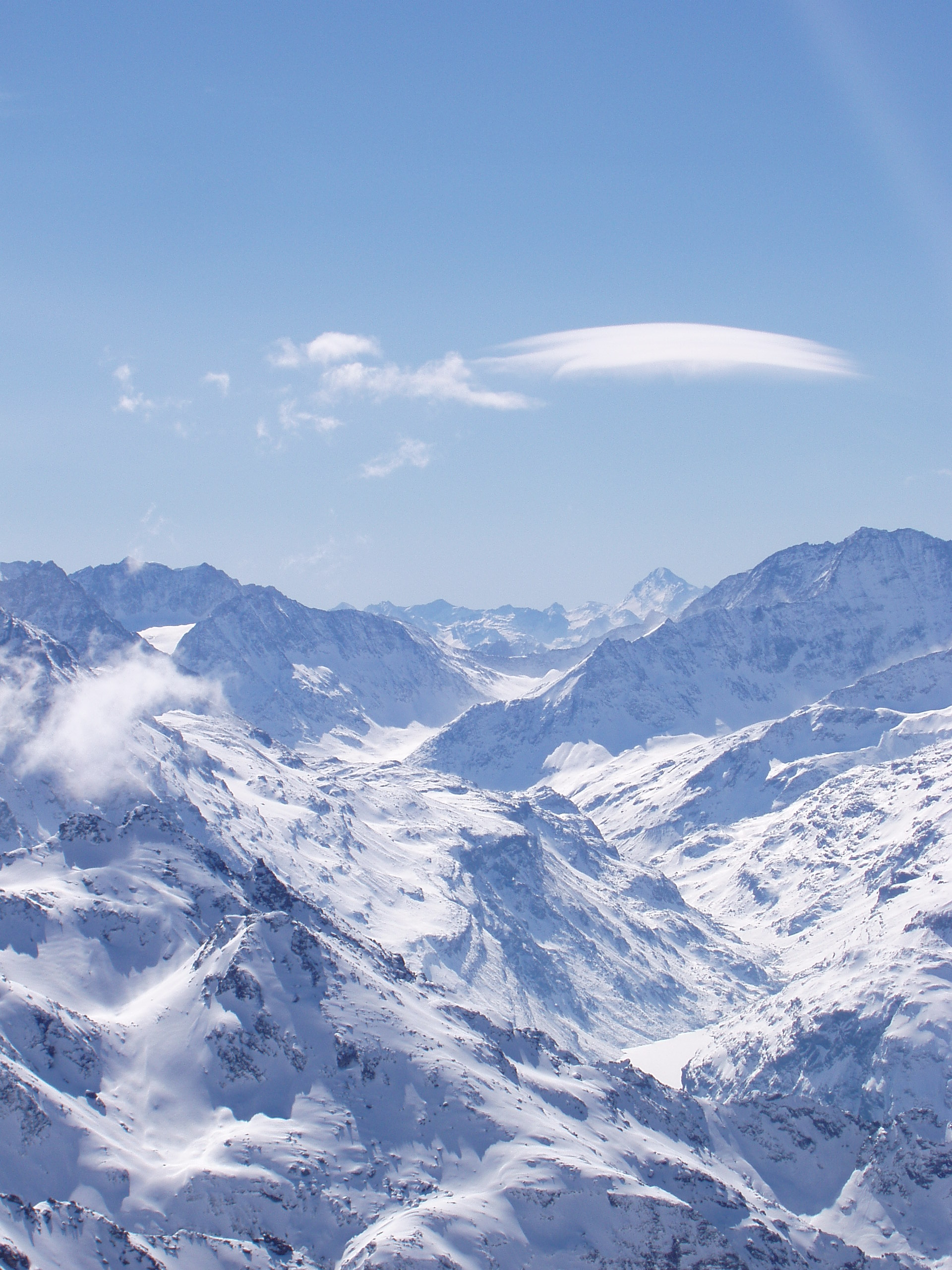 A lenticularis-cloud over the swiss alps, the picture is taken from the summit of Mont Fort. At the left side of the lenticularis you can see smaller cumulus-clouds.